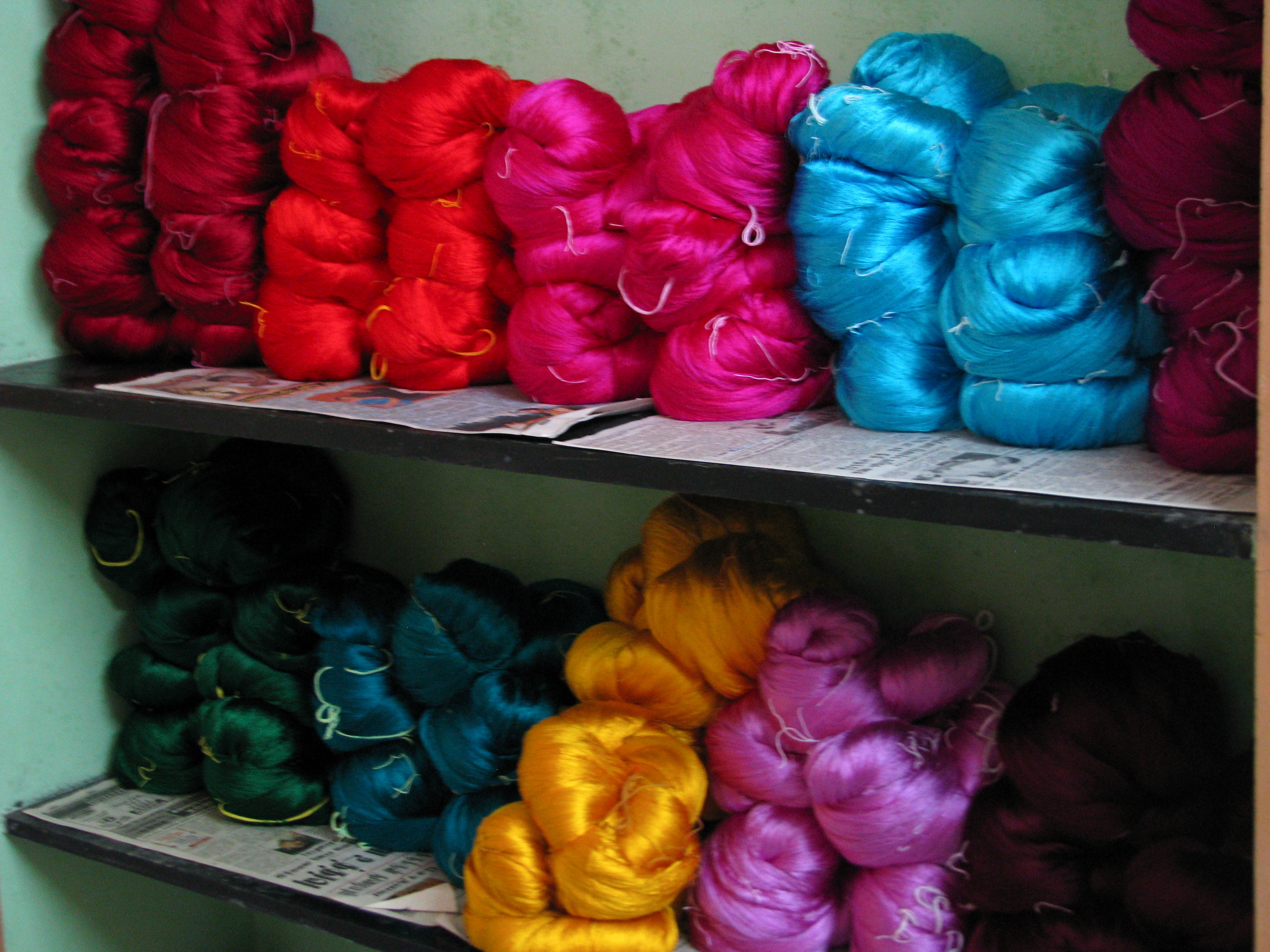 Wonderfully bright silk yarn waiting to be hand-woven into finely crafted saris, a specialty of Kancheepuram in Tamil Nadu.